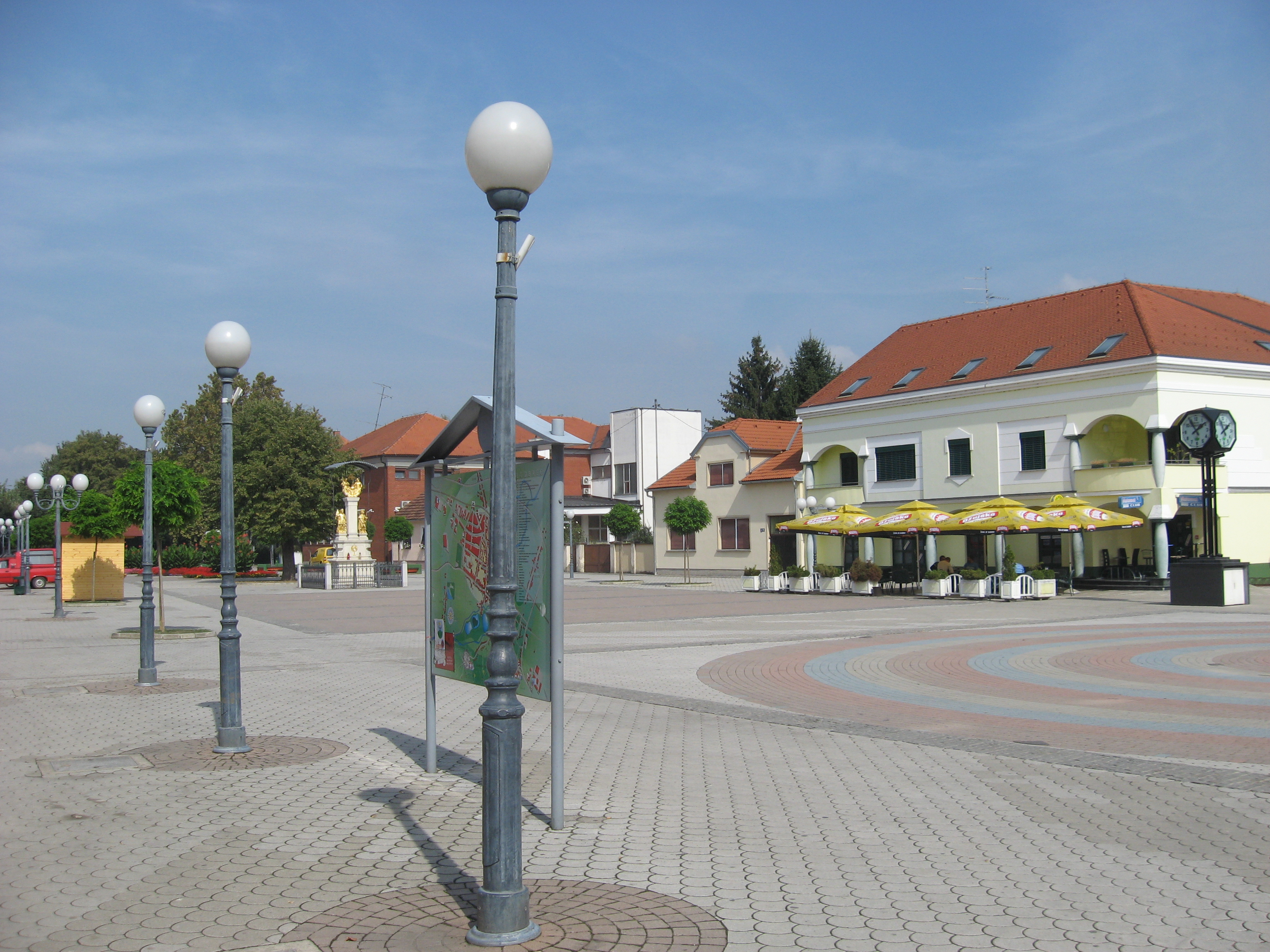 Centrum Mundi. Ludbreg. Croatia